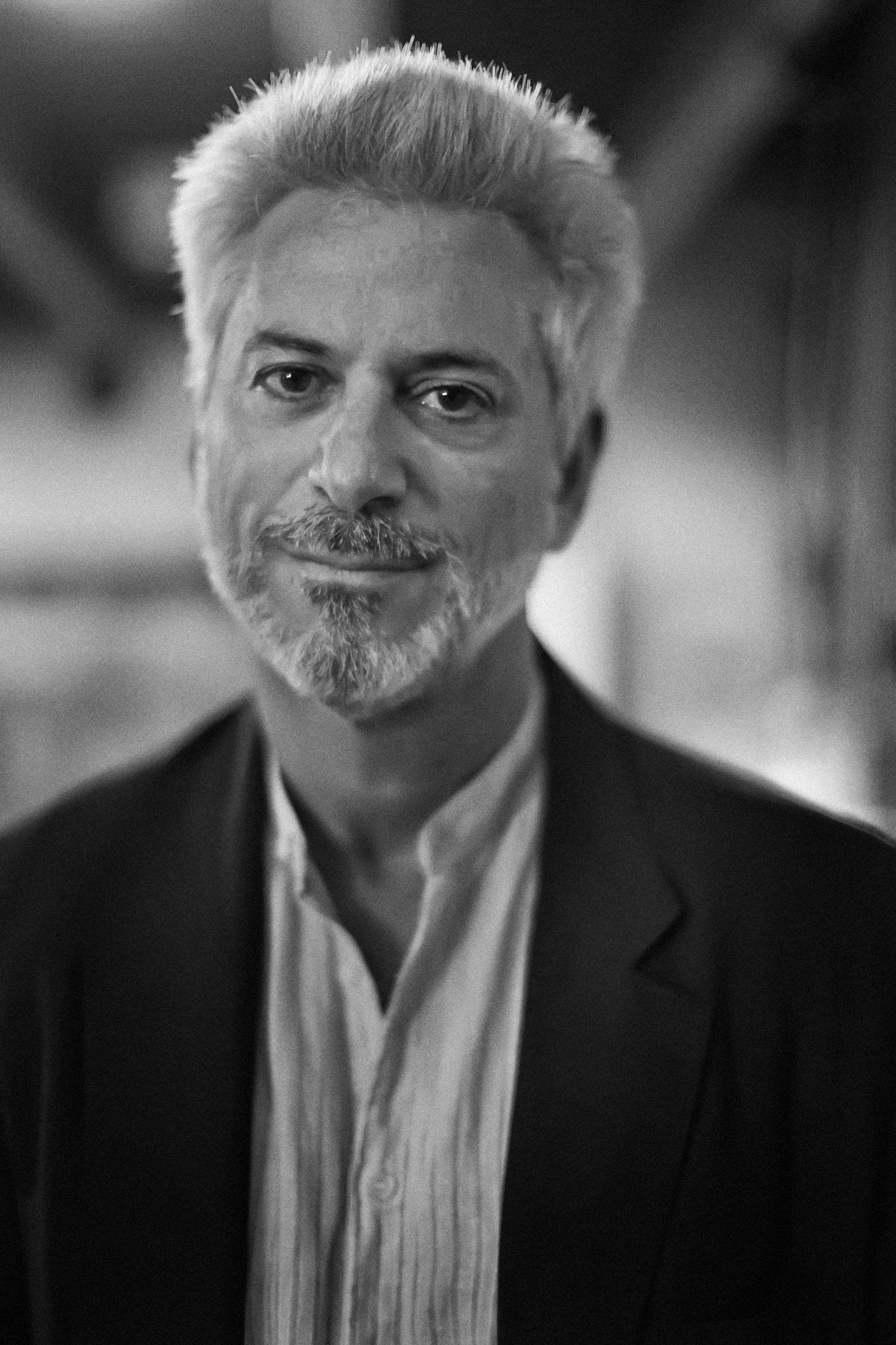 Headshot of Author Michael Specter